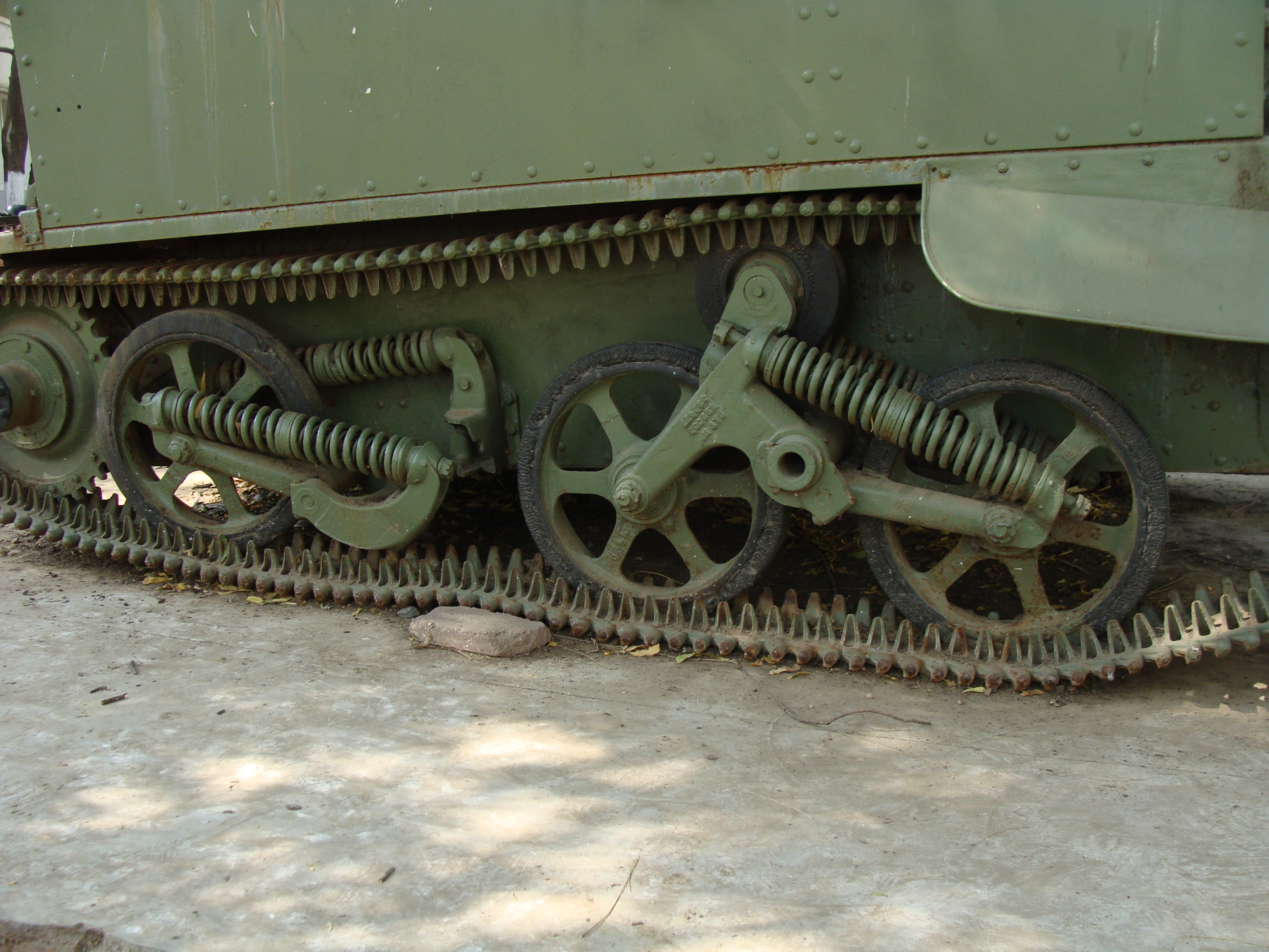 The wheels of the tank structure placed in the LD College of Engineering.